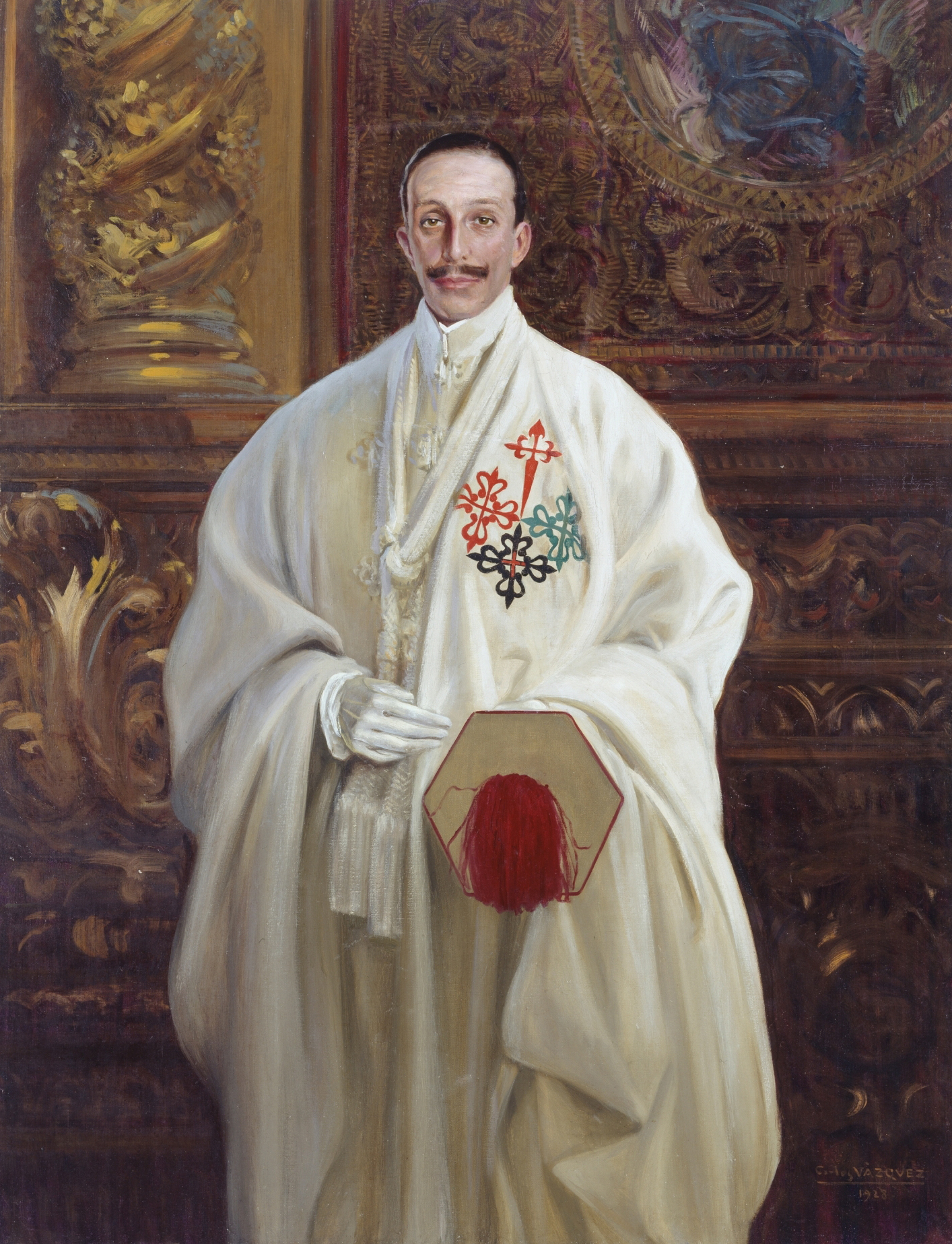 Alfonso XIII of Spain in uniform of Grand Master of the four Spanish military orders: Santiago, Calatrava, Alcántara and Montesa.